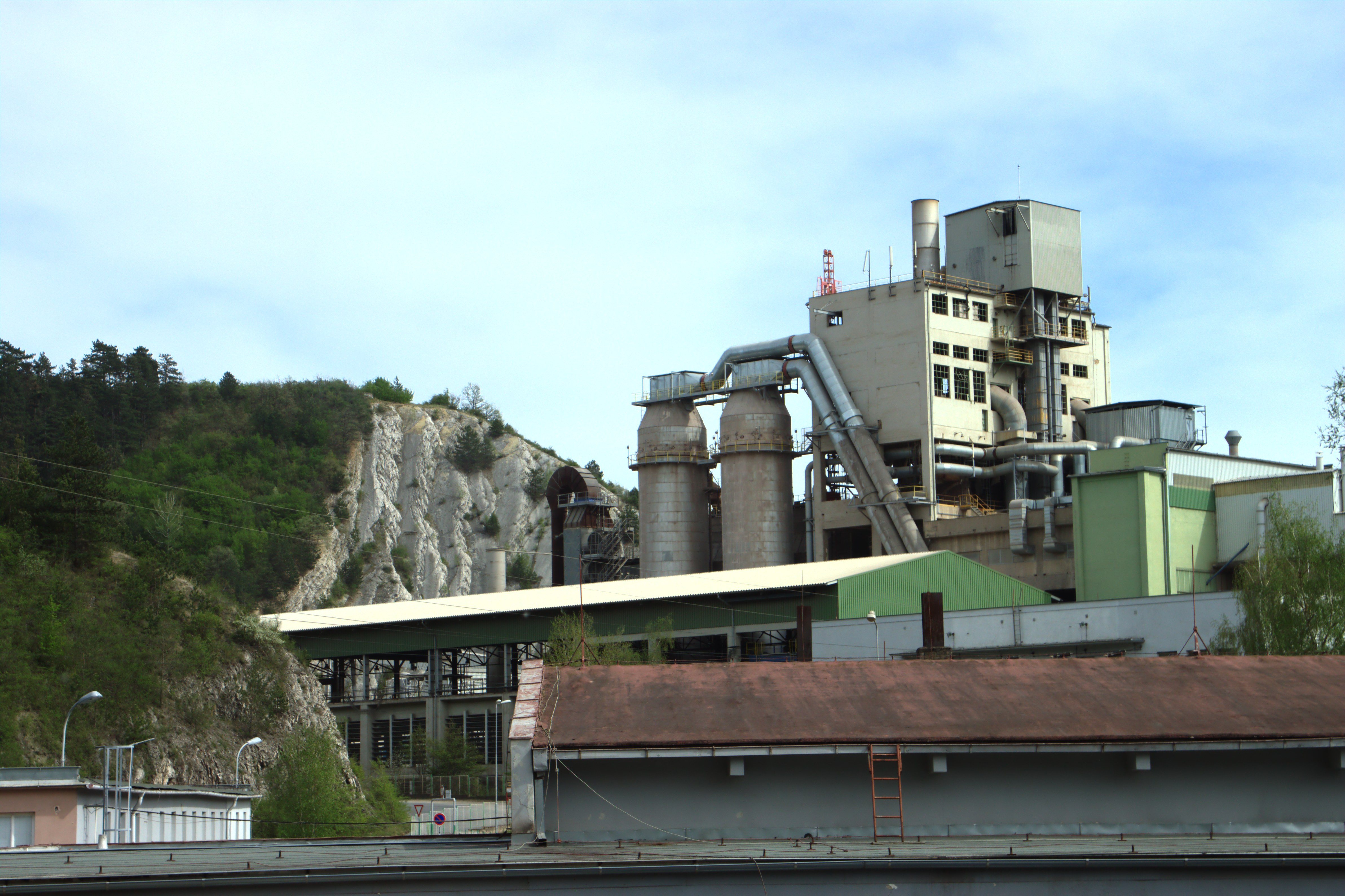 Radotín cement works, Prague, CZ